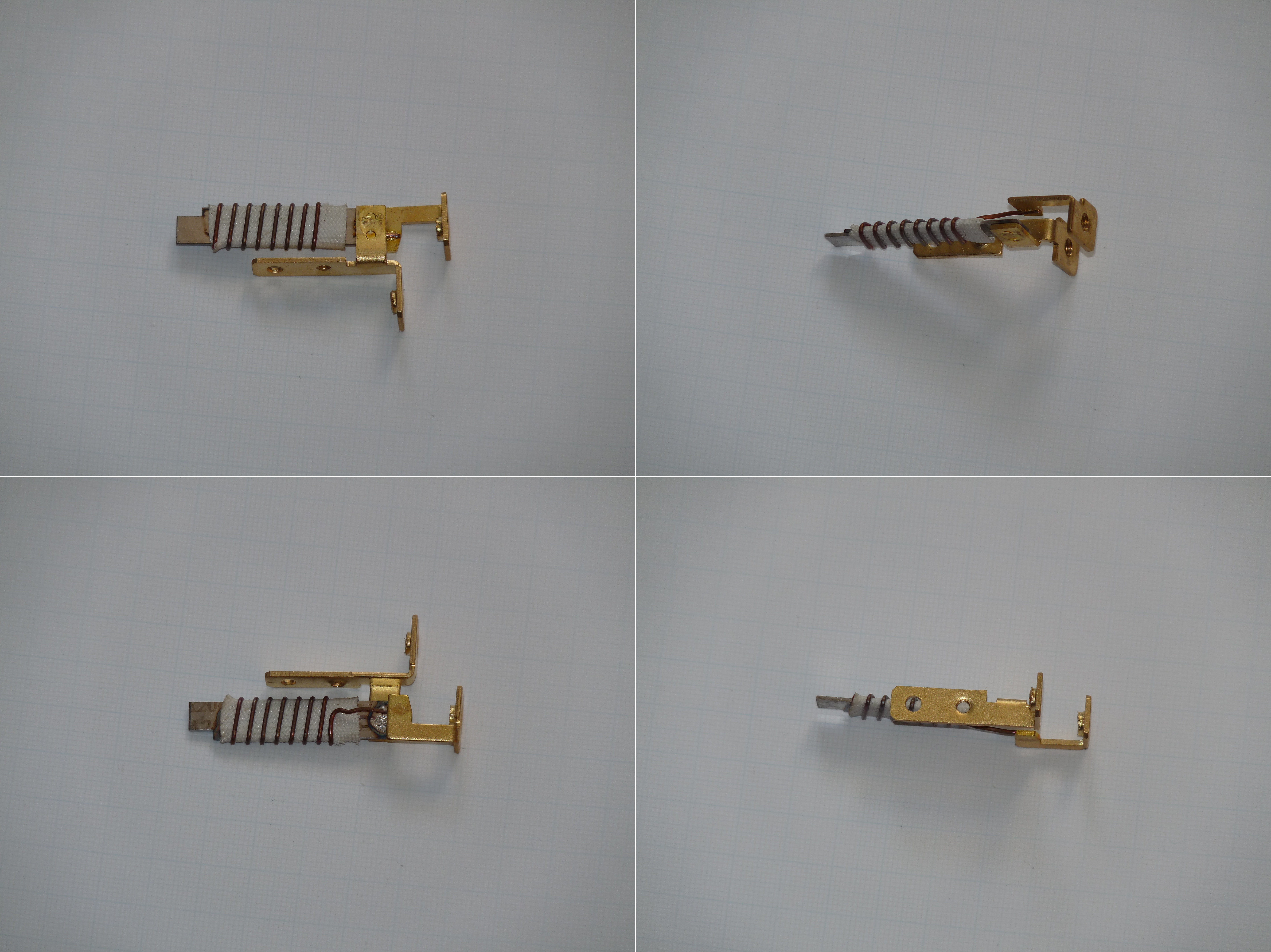 Bimetallic strip, used in thermorelays for electric motor protection